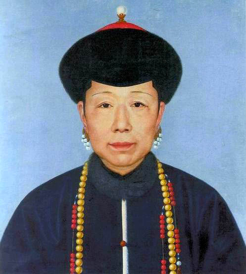 The Official Imperial Portrait of Qing Dynasty's Empresses